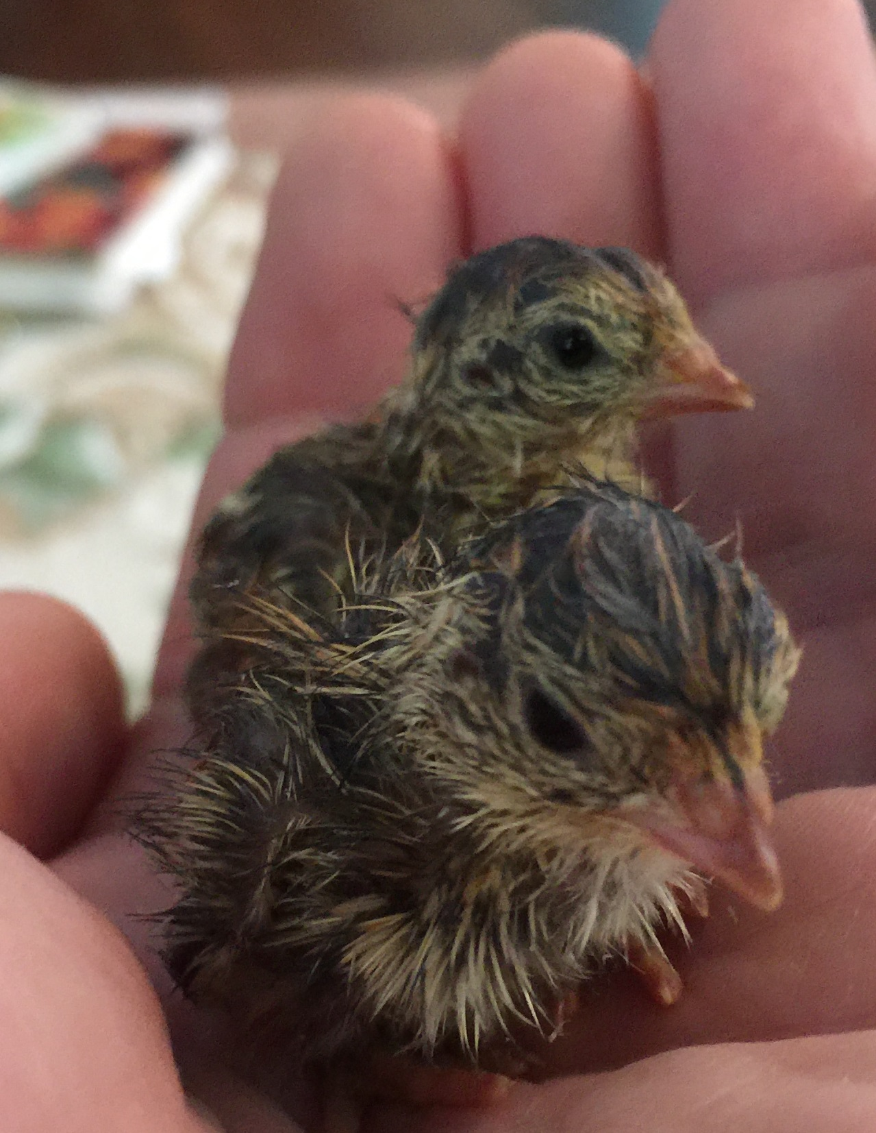 Coturnix japonica(Japanese quail) day0 after Hatching